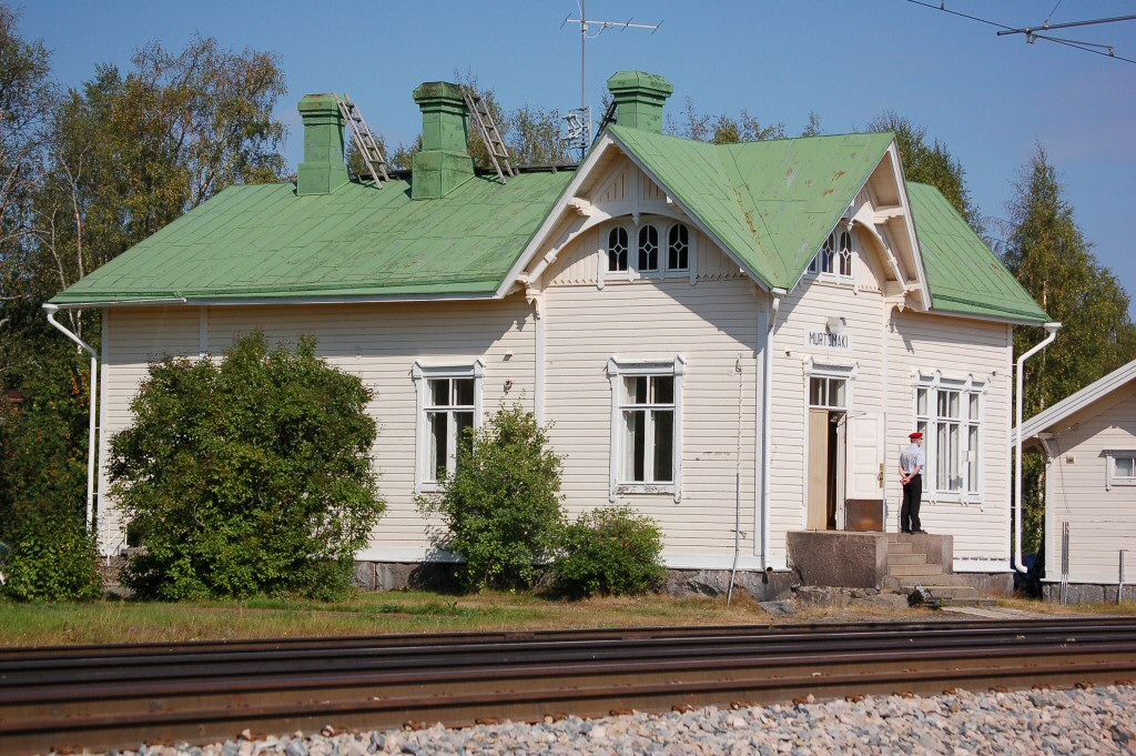 Murtomäki railway station in Kajaani, Finland, on Iisalmi-Kontiomäki line. Drawn by Bruno Granholm, built in 1904.